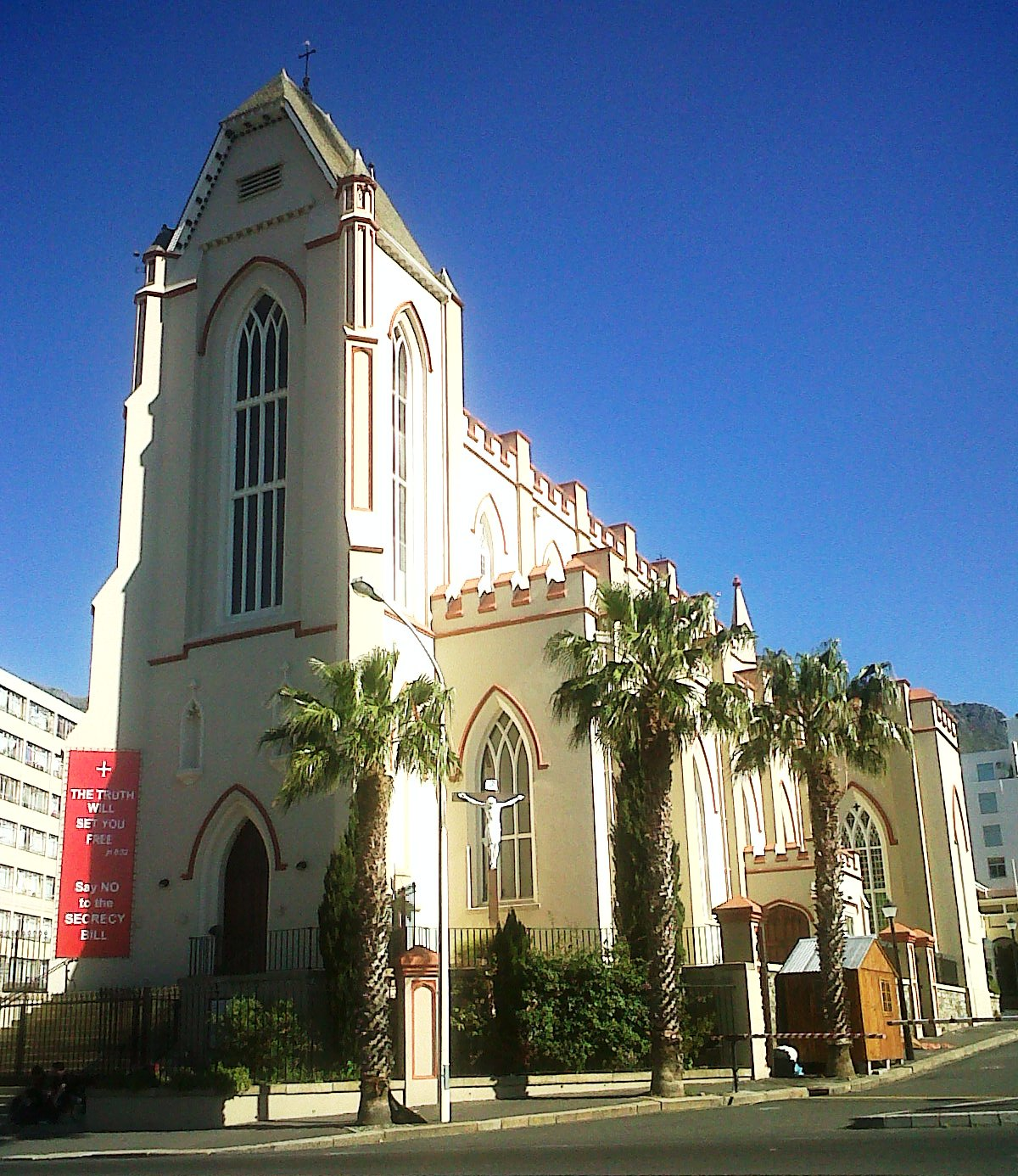 This media shows a South African Protected Site with SAHRA file reference 9/2/018/0236.